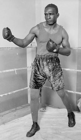 "Full-length portrait of African American pugilist Tiger Flowers standing in a boxing stance in a corner of a boxing ring in a room in Chicago, Illinois."